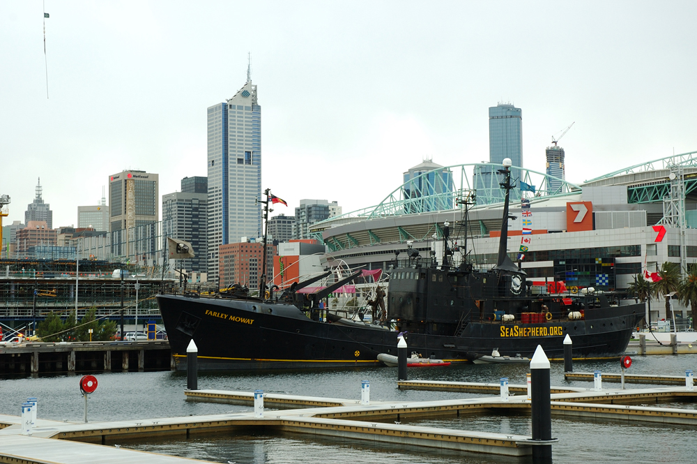 Farley Mowat. I took this at Docklands, Melbourne, Australia before it went pursuing Japanese whaling fleet in Antarctica.